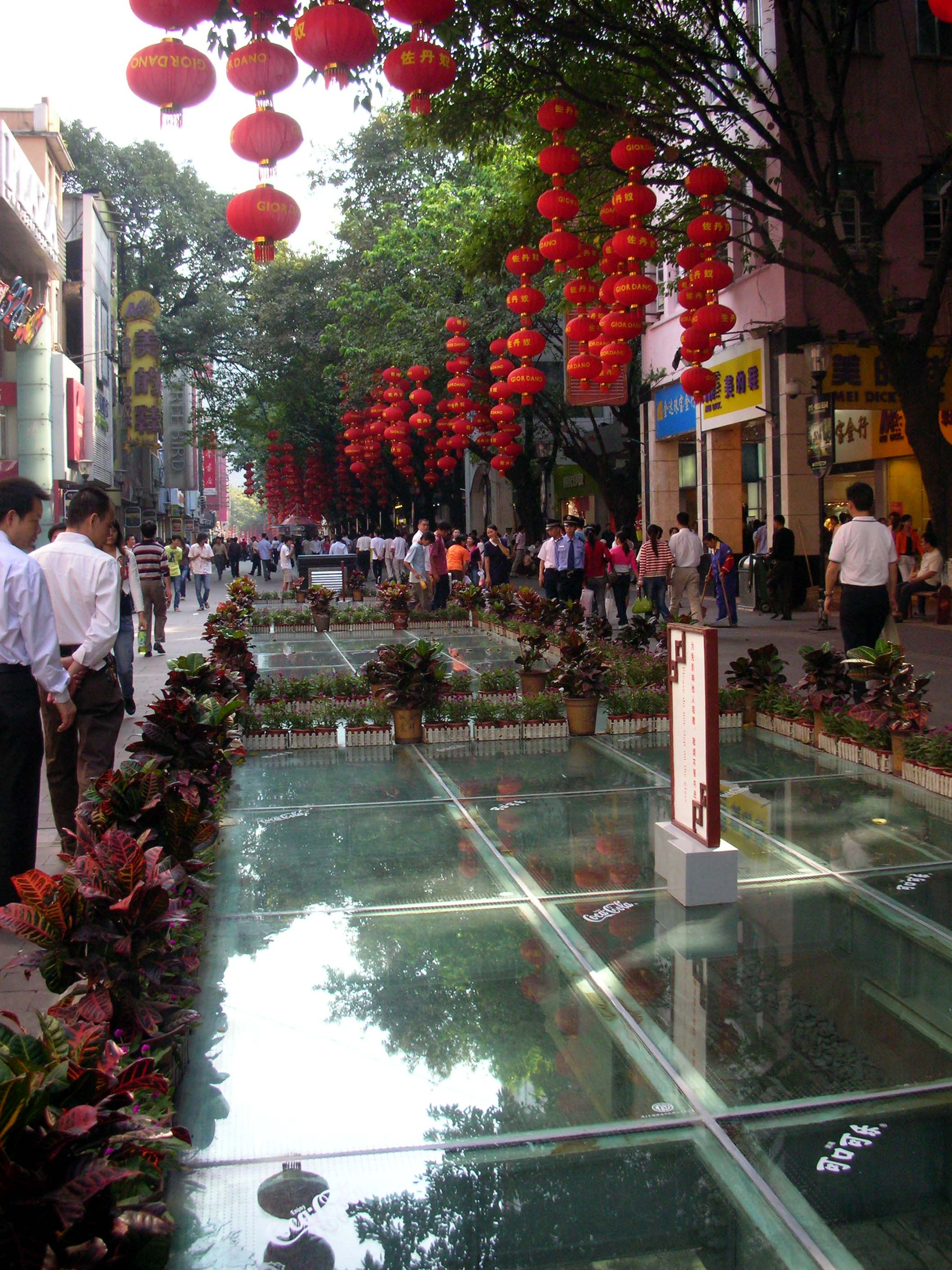 Beijing Road, Guangzhou. The Historical site is under the protection of the glass.